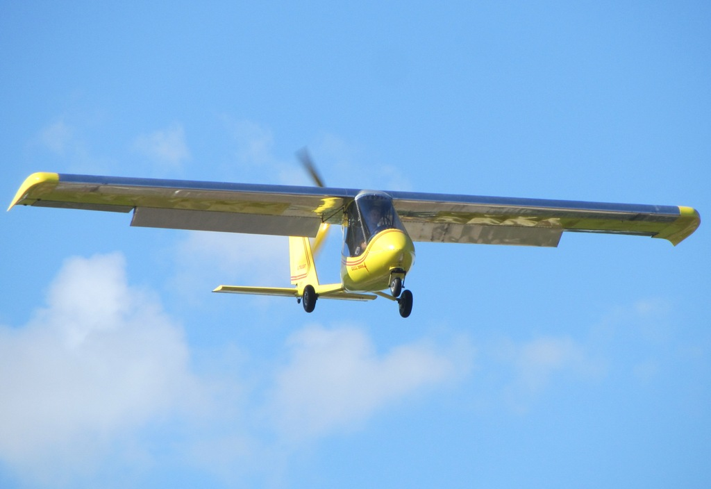 Earthstar EGull2000